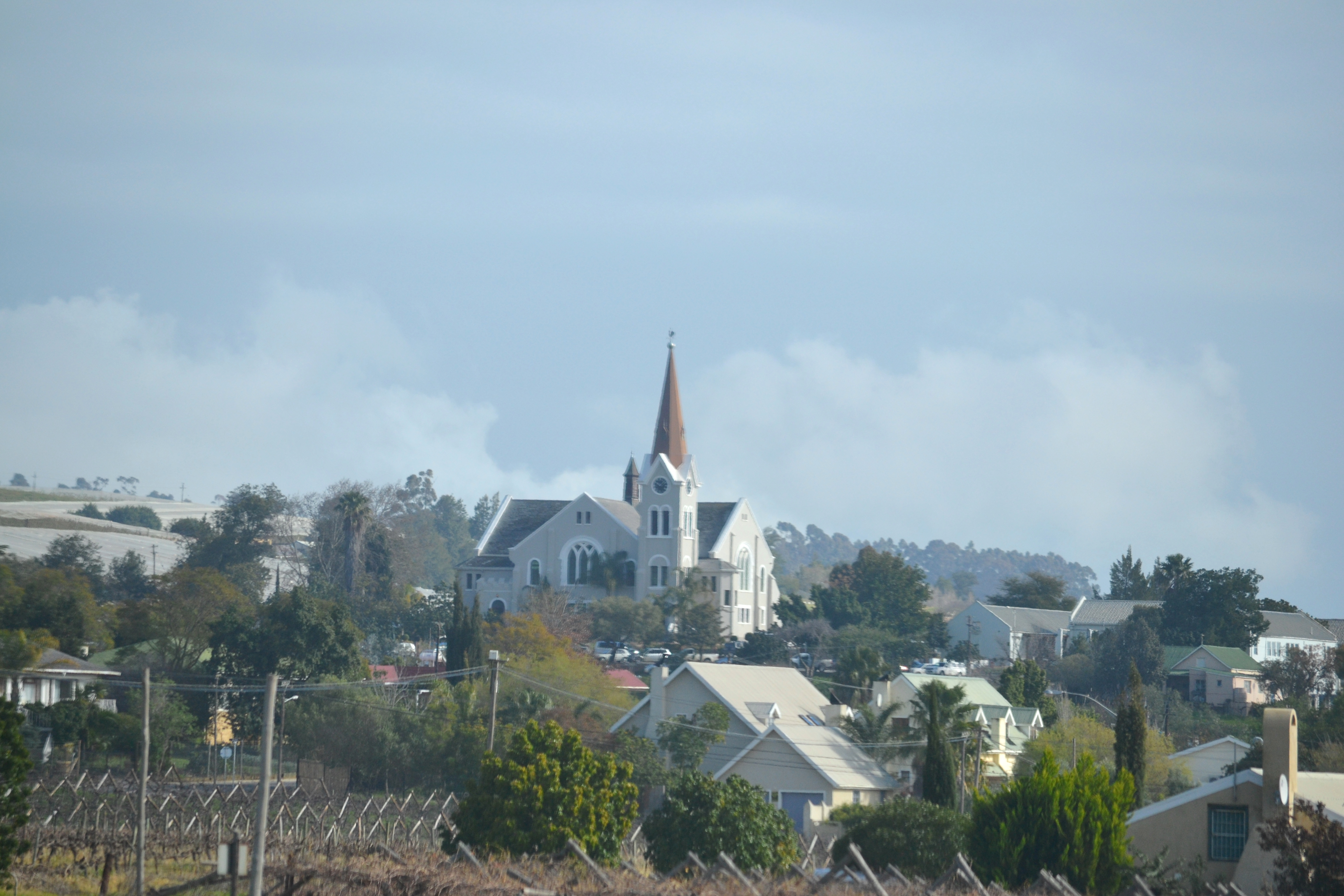 NG Kerk, 1863. Riebeek-Kasteel, Western Cape. This media shows a South African Protected Site with SAHRA file reference New.